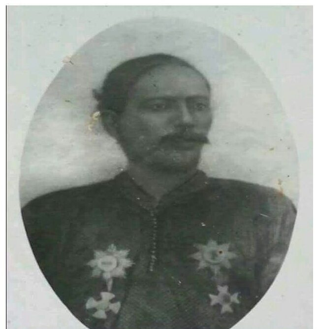 Emperor Yohannes IV of the Ethiopian Empire.